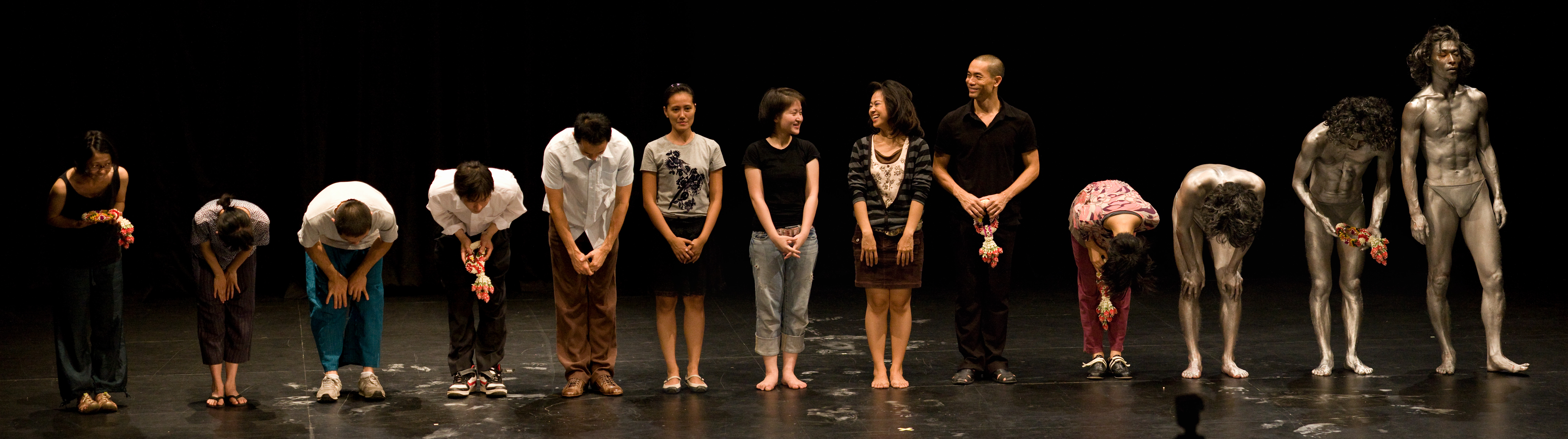 Thai dancers in various stages of bowing after a performance.